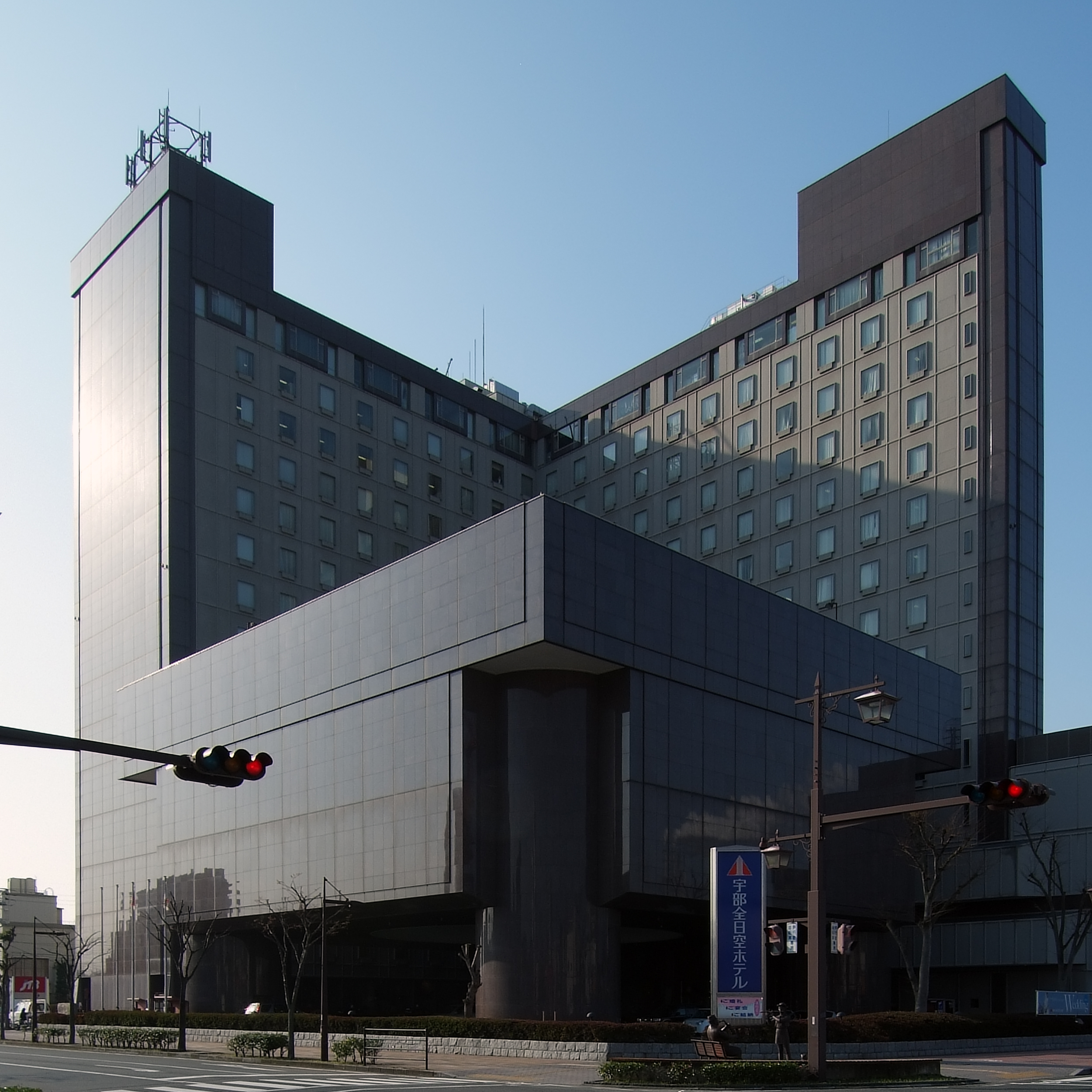 ANA Hotel Ube, at Ube Yamaguchi Japan, design by Togo Murano in 1983.